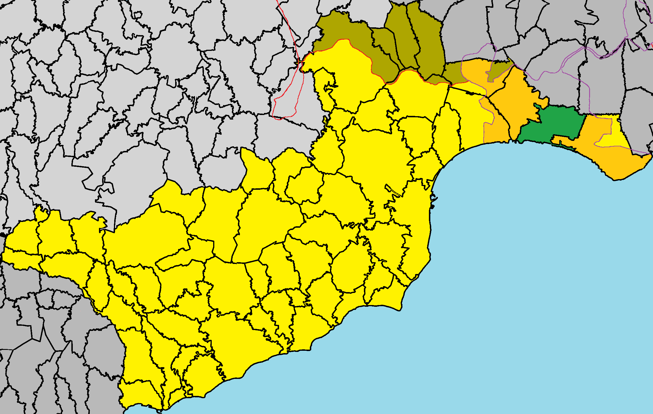 Ormideia in Larnaca District.